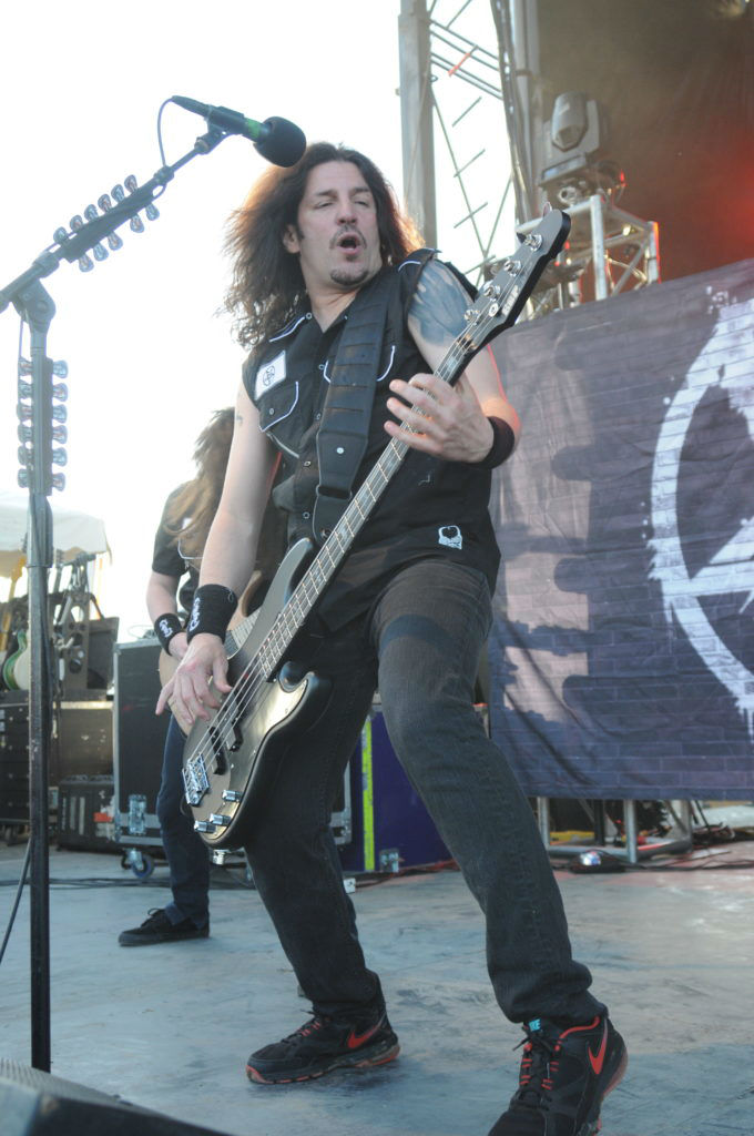 Frank Bello of Anthrax performs at Northern Invasion at Somerset Amphitheater, Somerset, Wisconsin, USA on May 3, 2015. Photo by Adam Bielawski